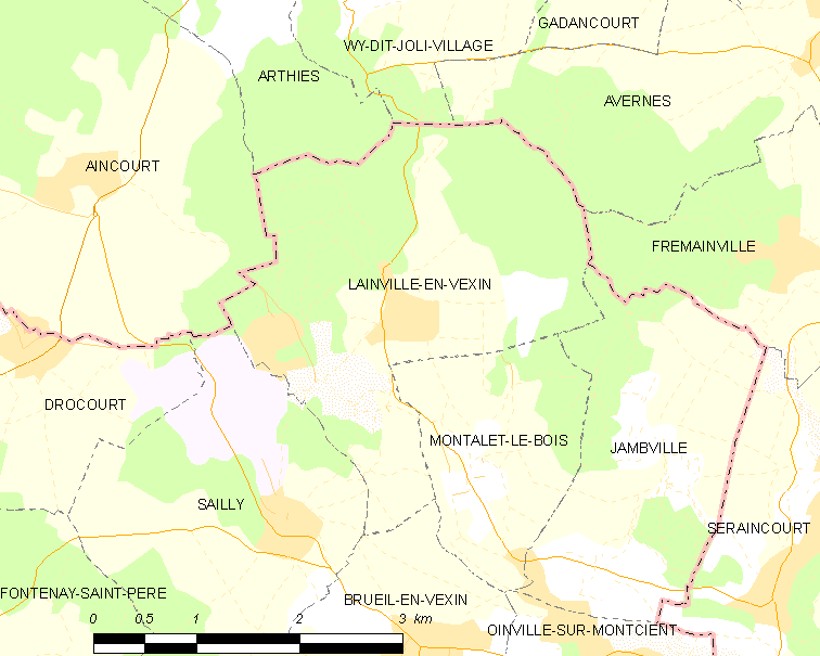 Map of French municipality Lainville-en-Vexin